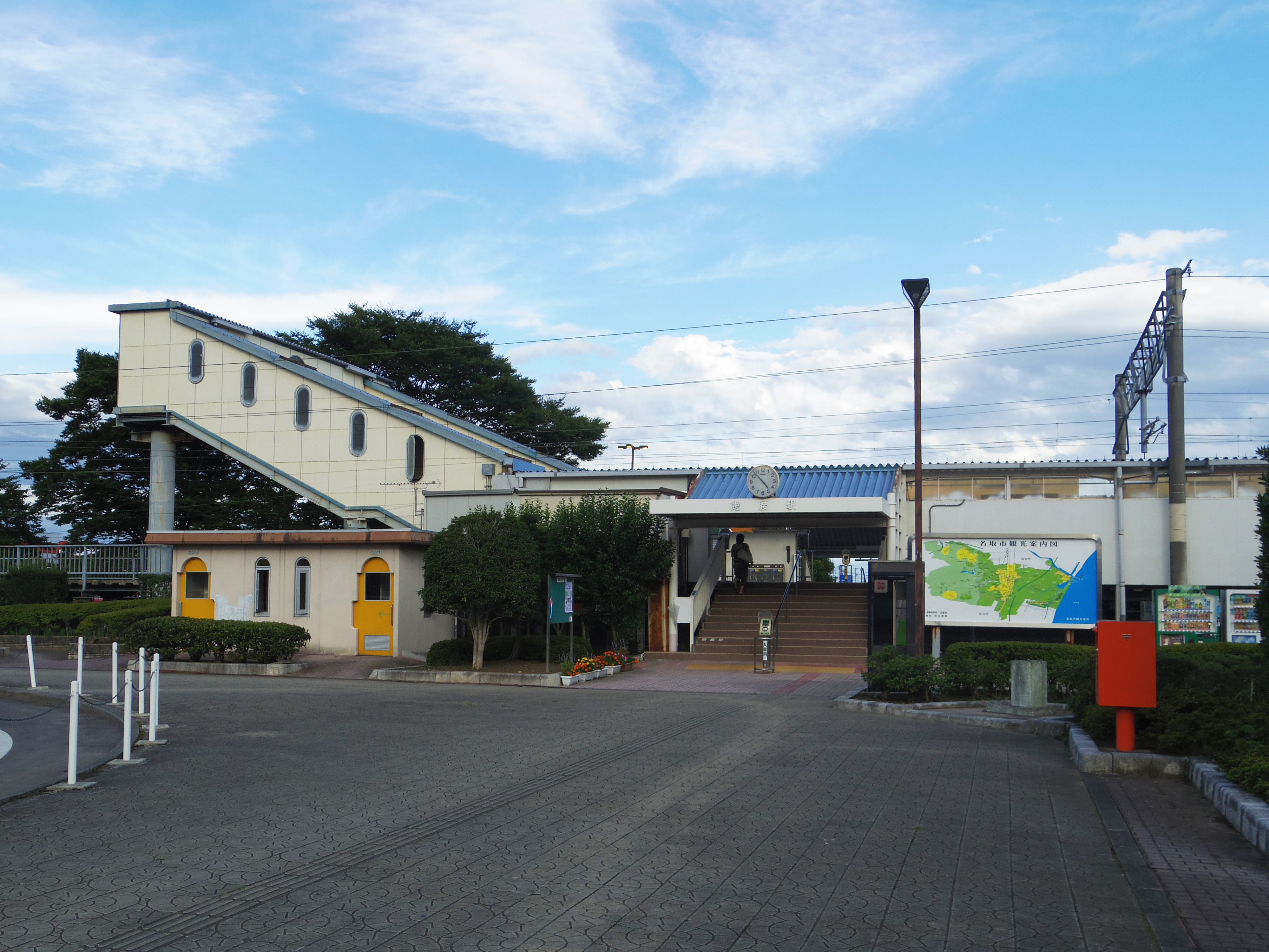 The west entrance of Tatekoshi Station